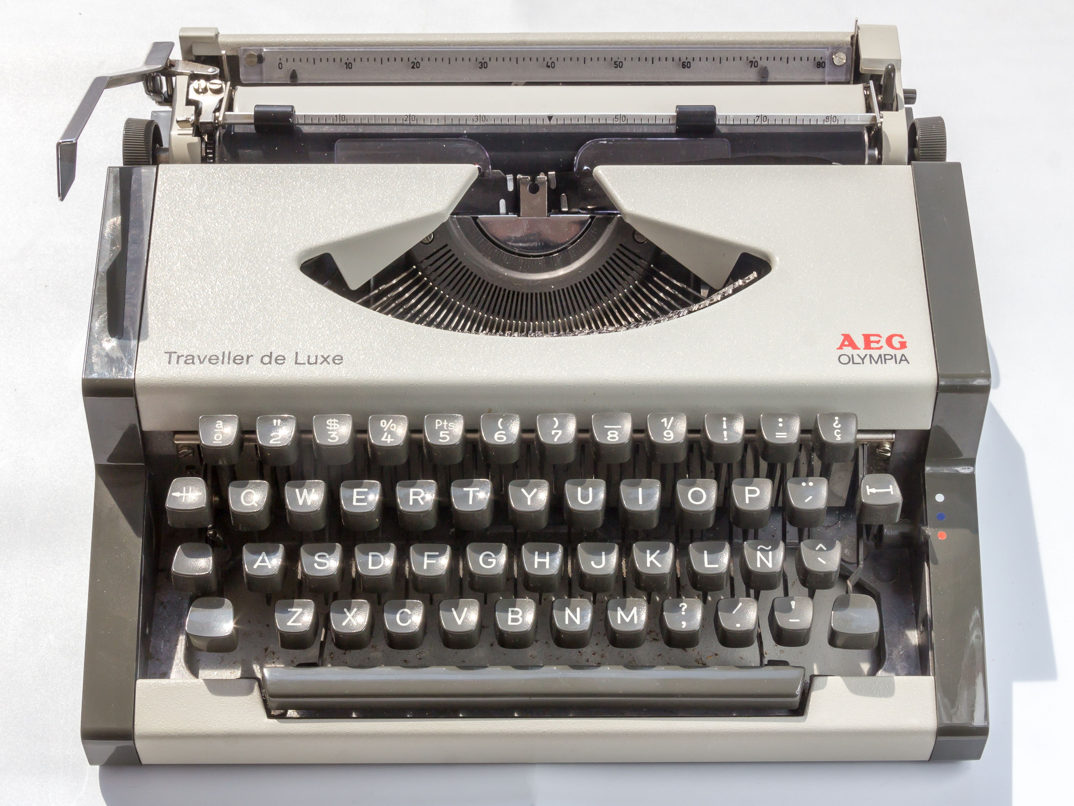 AEG Olympia - Traveller de Luxe - Spanish keyboard layout